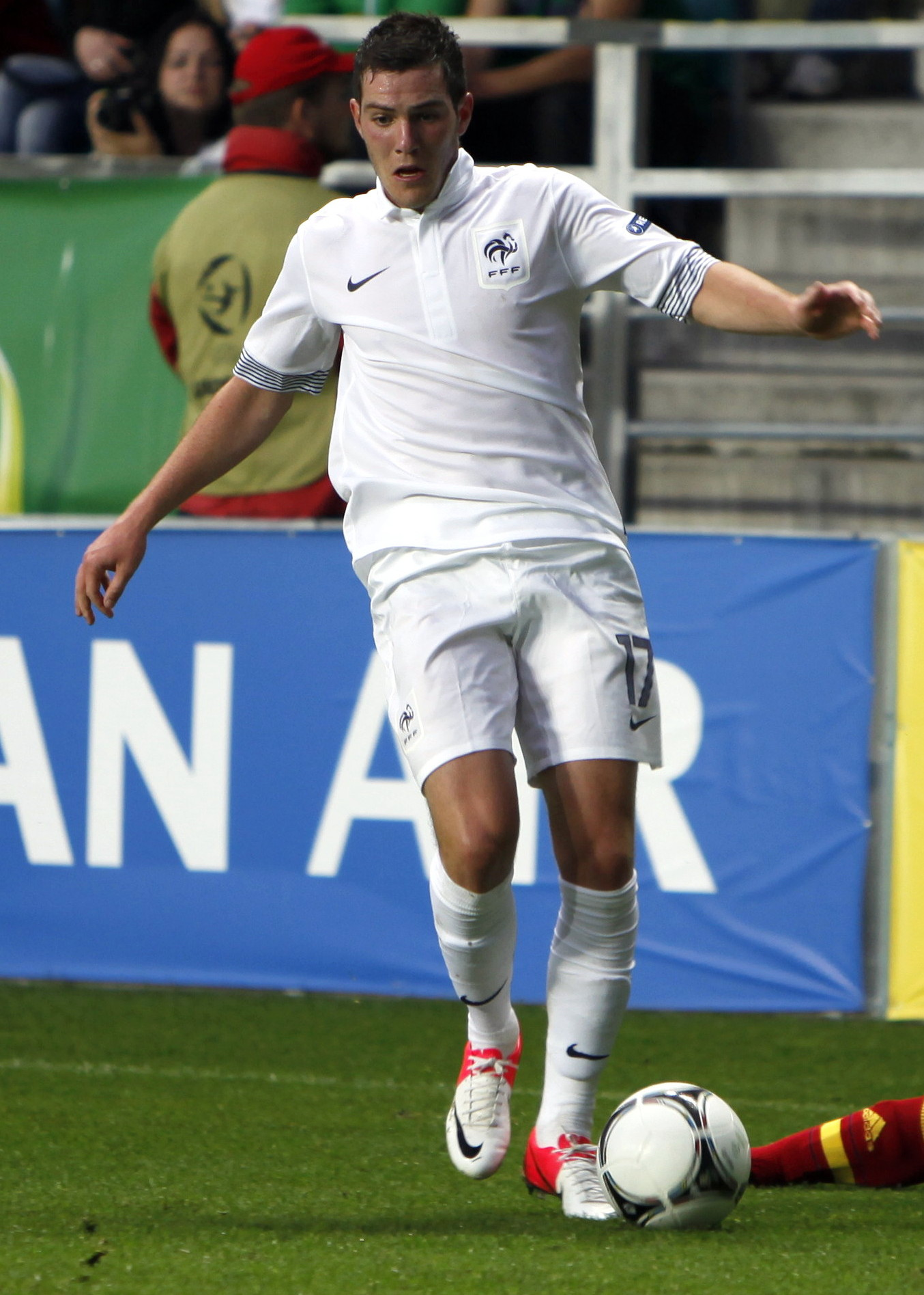 U-19 Spain vs France.